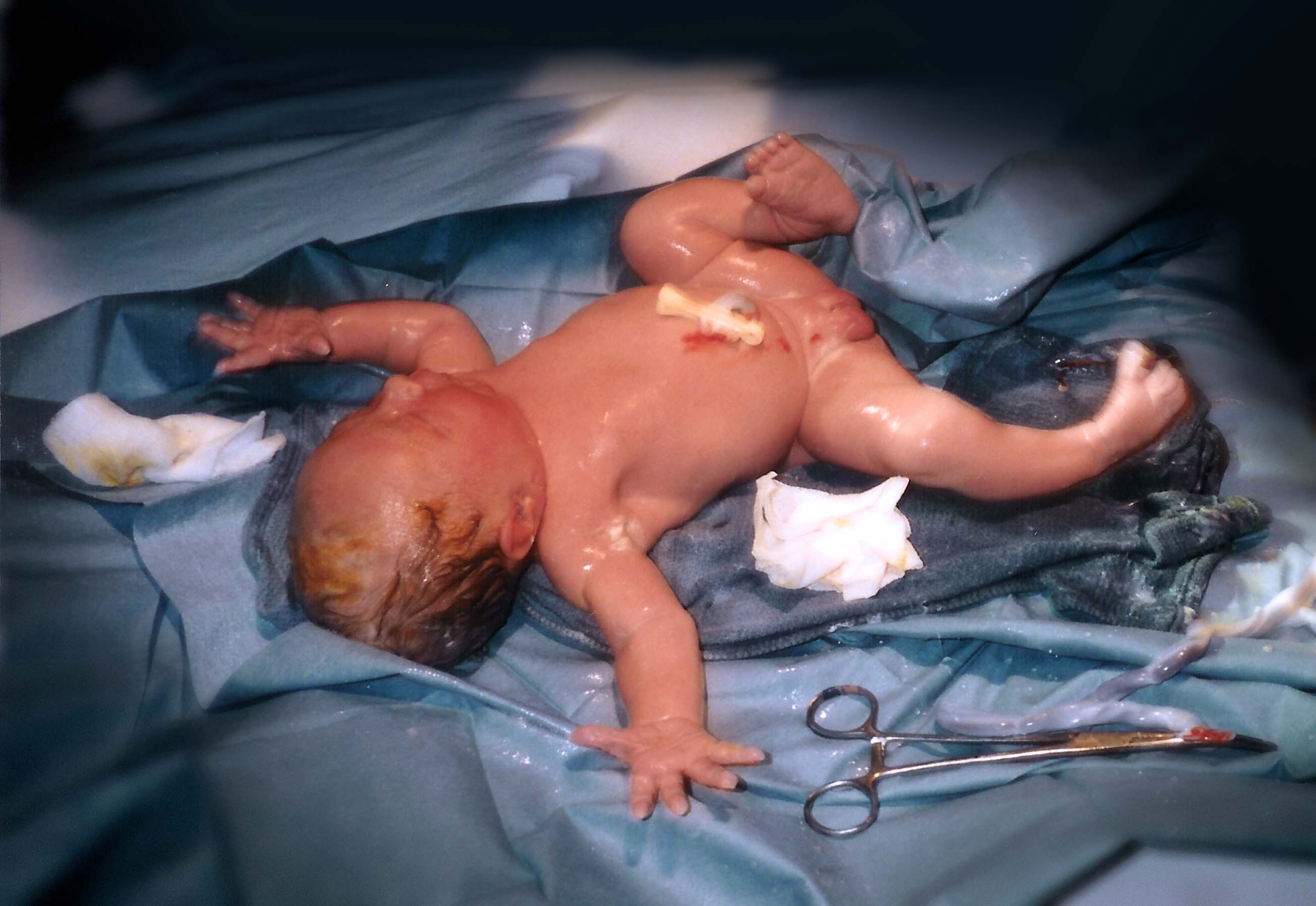 Unidentified newborn infant moments after the umbilical cord had been cut. Photo taken by Every1blowz, August 25, 1994. Herewith licensed under GFDL.